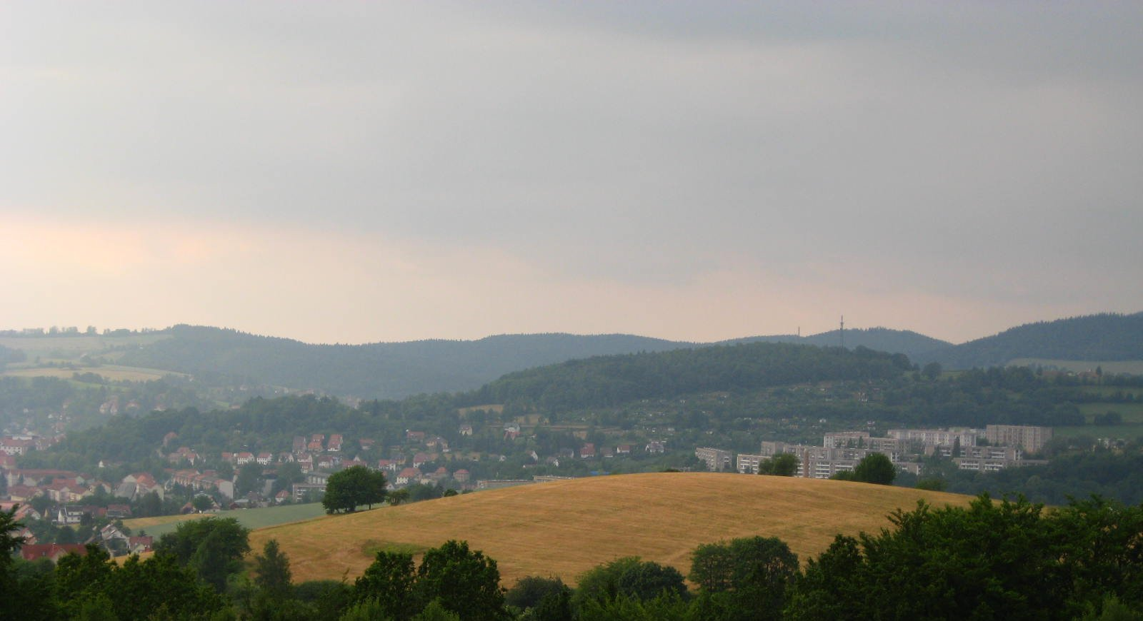 View over Schmalkalden, Thuringia.